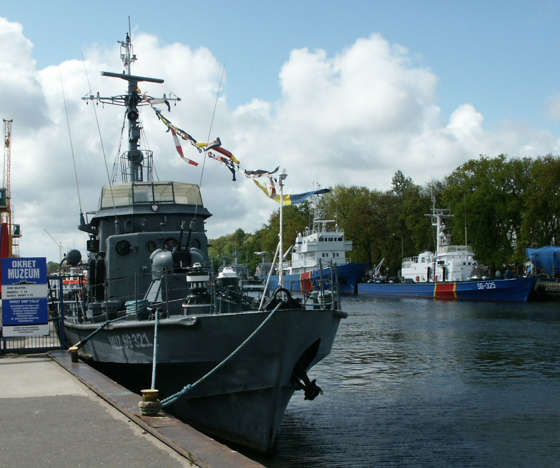 Polish patrol craft ORP Fala as a museum ship in Kołobrzeg. In a background - Border Guard patrol craft Kaper-2 and SG-325.